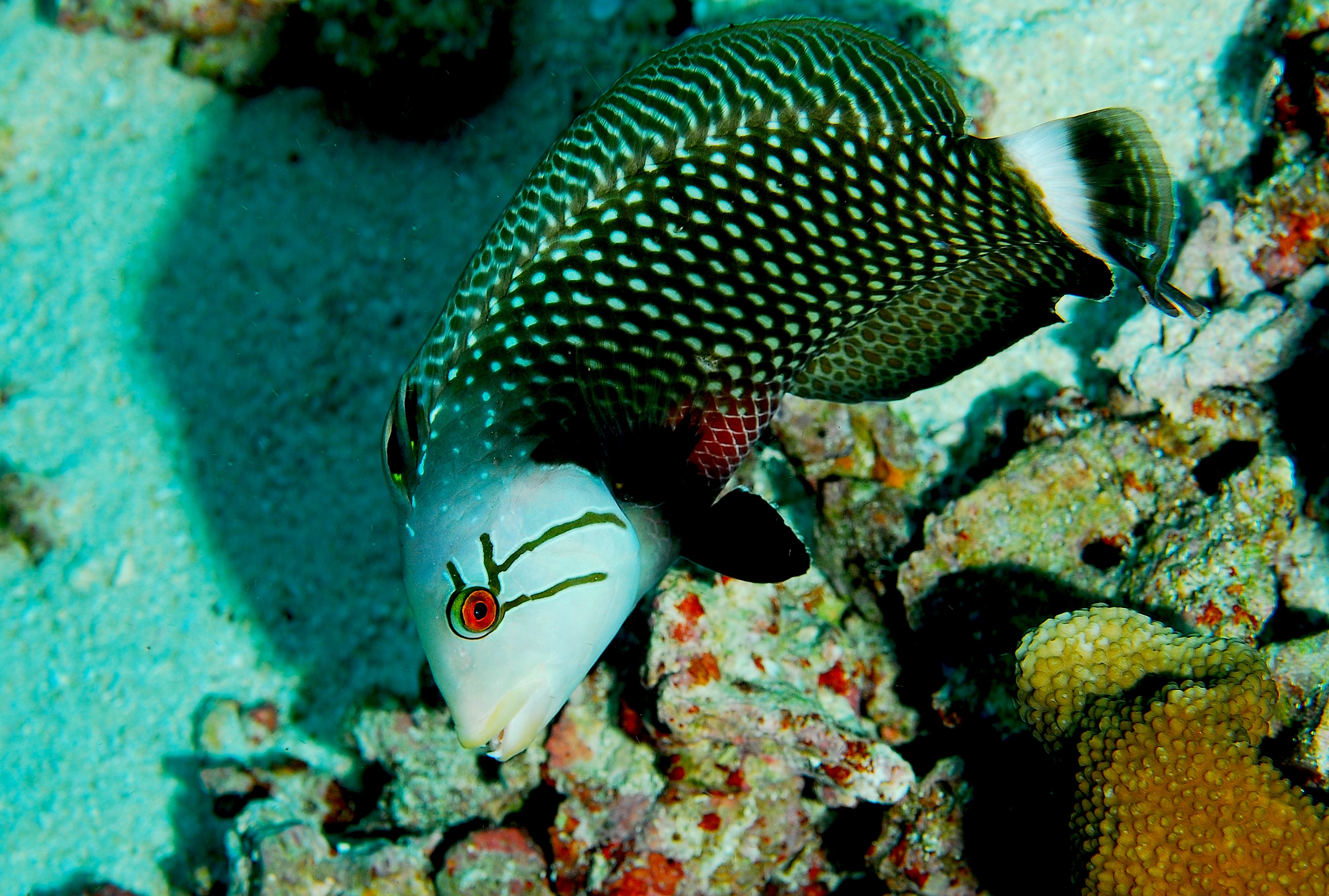 Novaculichthys taeniourus